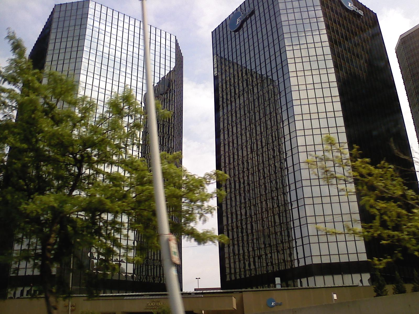 Towers 500 and 600 of the Renaissance Center